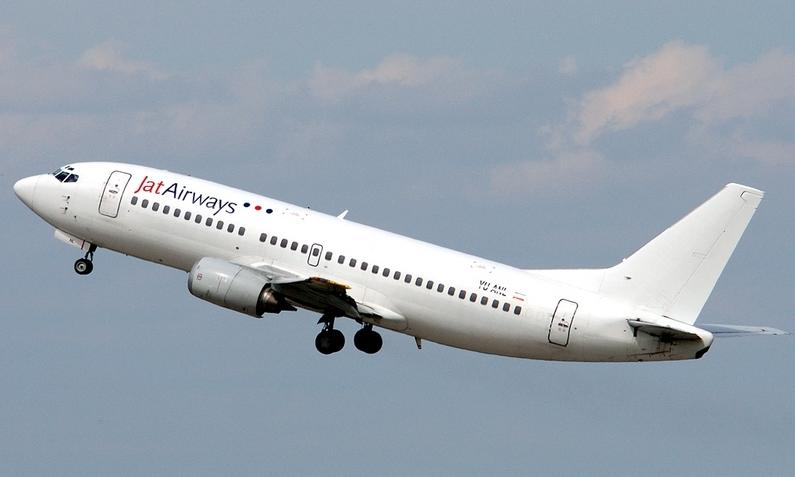 Used by permission of copyright holder Skyliner.